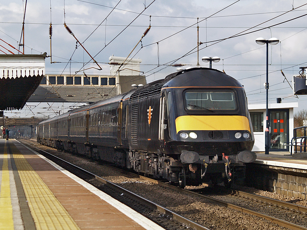 Grand Central Railway Company Limited former British Railways British Rail Engineering Limited class 43 Bo-Bo diesel-electric locomotive numbers 43084 and 43065 (trailing) of Heaton TRSMD pass through Newark North Gate station on the Up Main line powering the 12:30 (SX) Sunderland to London Kings Cross (1A62). Wednesday 19th March 2008